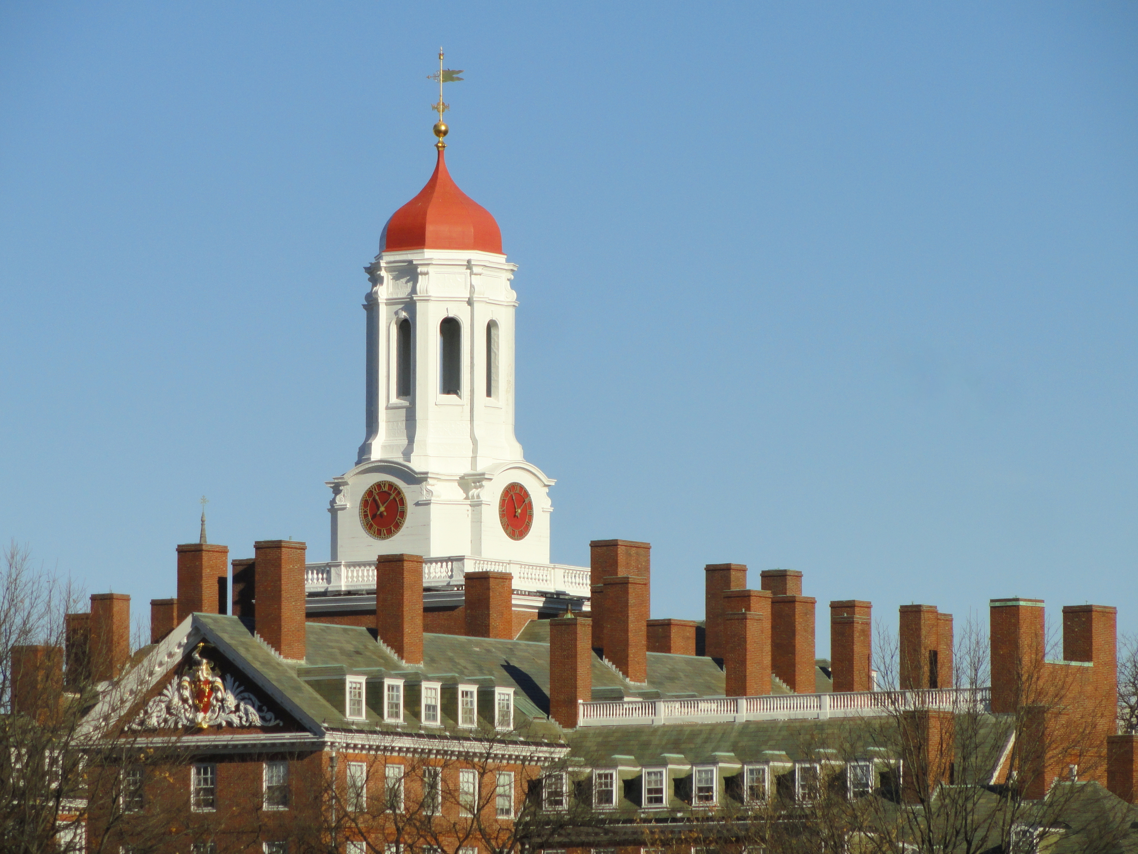 Dunster House roofline - Harvard University, Cambridge, Massachusetts, USA.